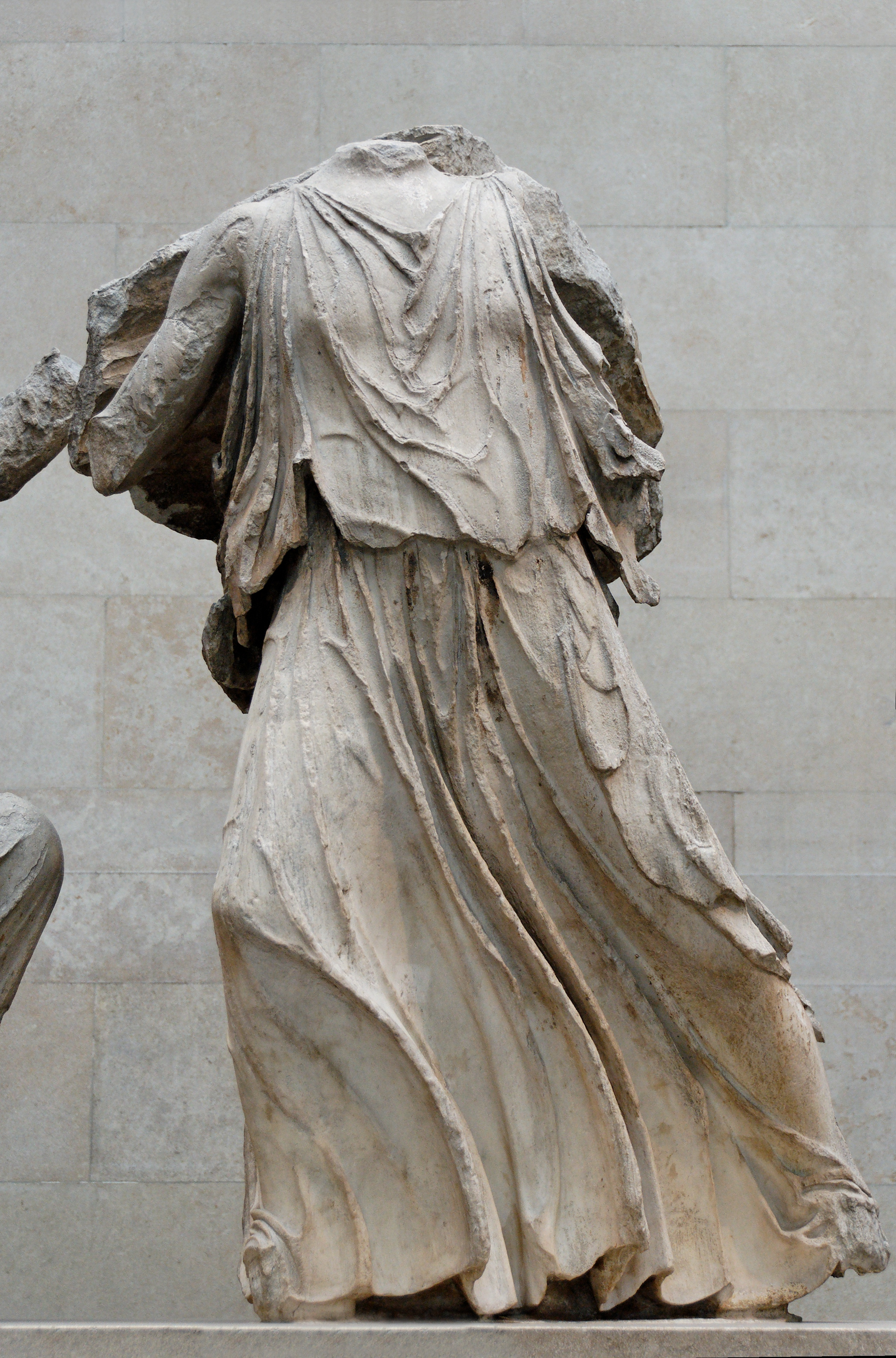 Artemis? East pediment G, Parthenon, ca. 447–433 BC.